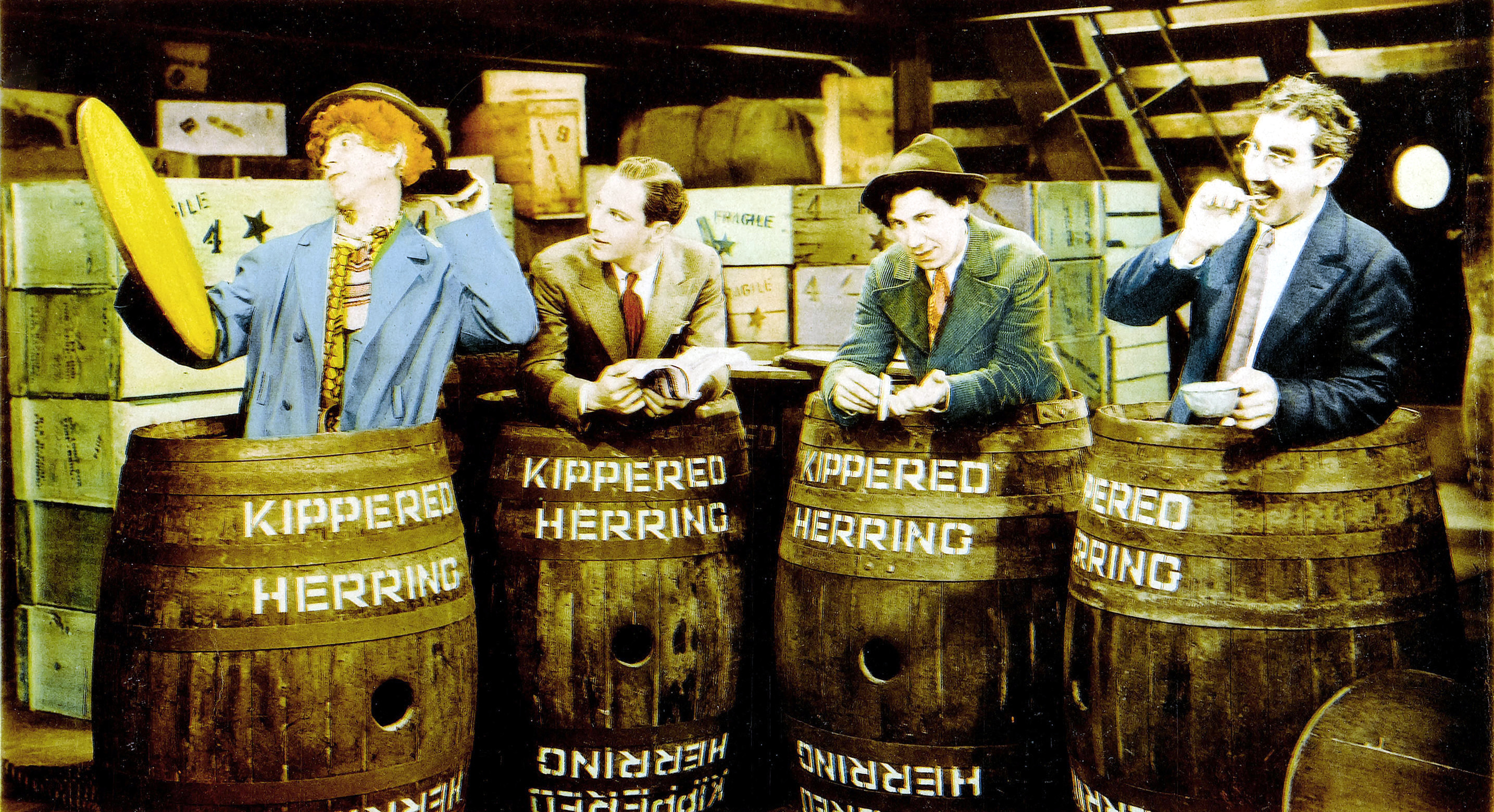 Cropped and edited lobby card from the 1931 film Monkey Business (Paramount 1931) featuring the four Marx Brothers Harpo, Zeppo, Chico and Groucho. The item has no copyright markings on it as can be seen in the links above.